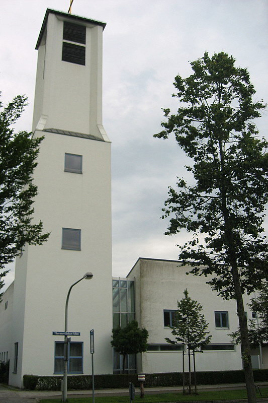 St. Maximilian Kolbe in Neuperlach-Süd